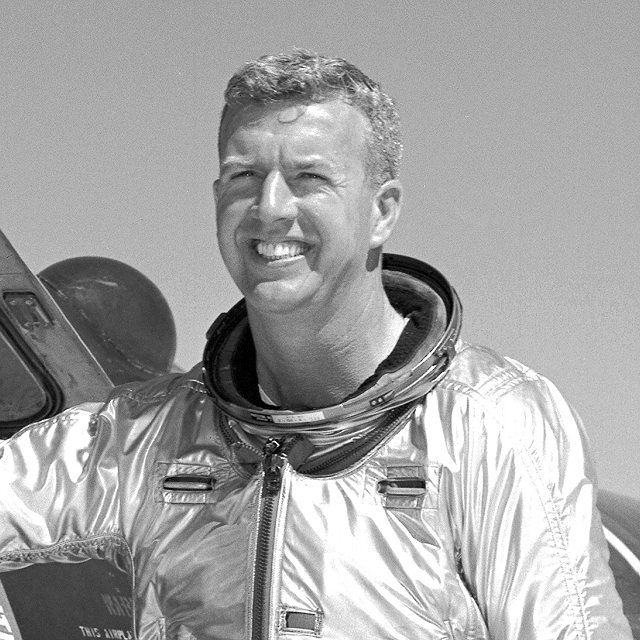 Joseph A. Walker is seen here after a flight in front of the X-15 #2 (56-6671) rocket-powered research aircraft. Joseph A. Walker was a Chief Research Pilot at the NASA Dryden Flight Research Center during the mid-1960s.